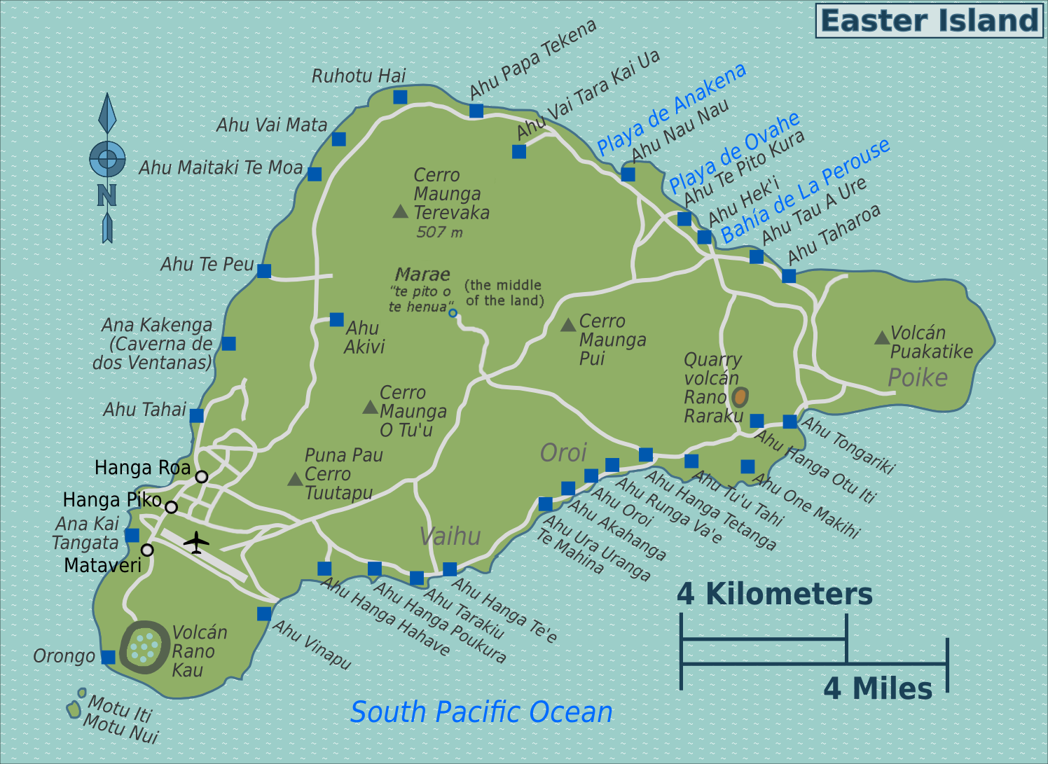 Map of Easter Island for use on Wikivoyage, English version